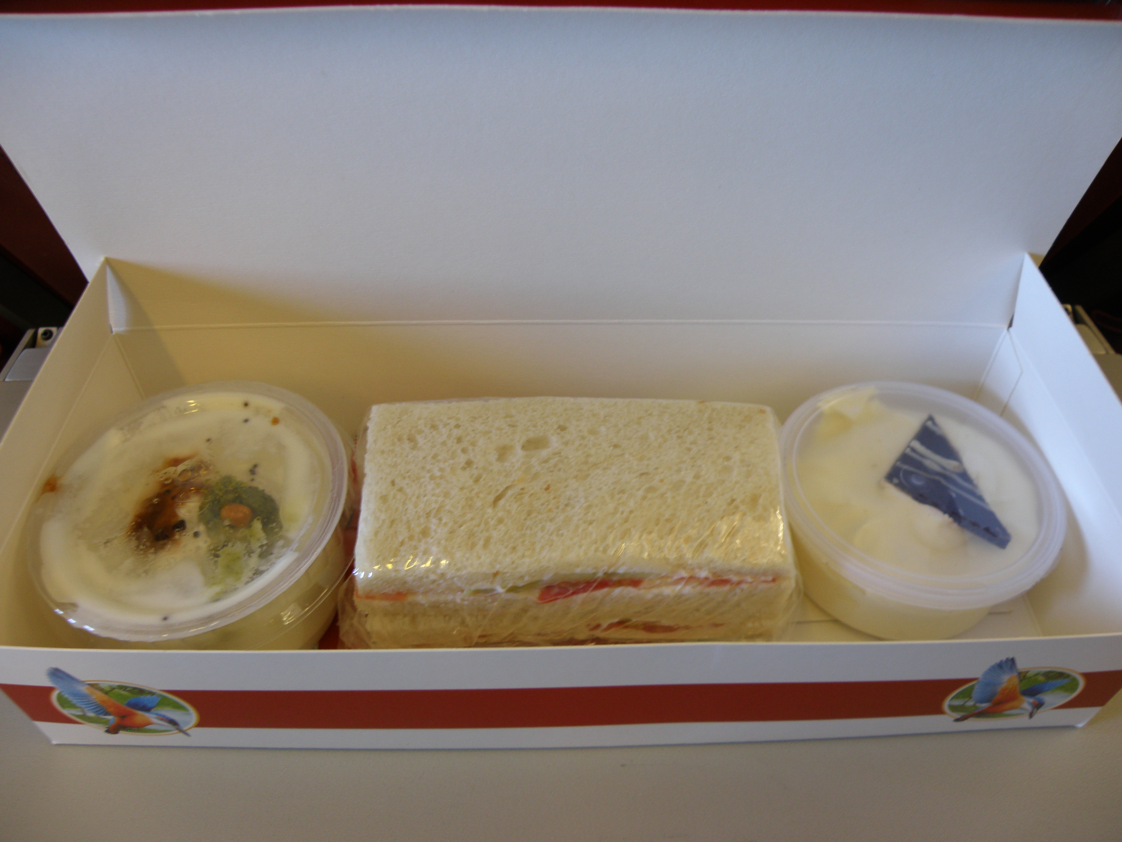 Snack served on a Kingfisher Red flight on the Nagpur-Bangalore route.